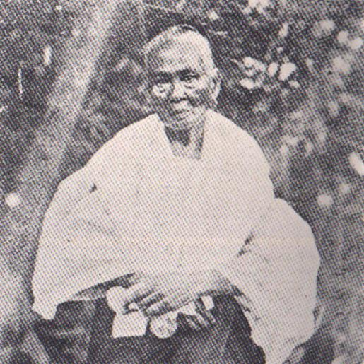 Melchora Aquino